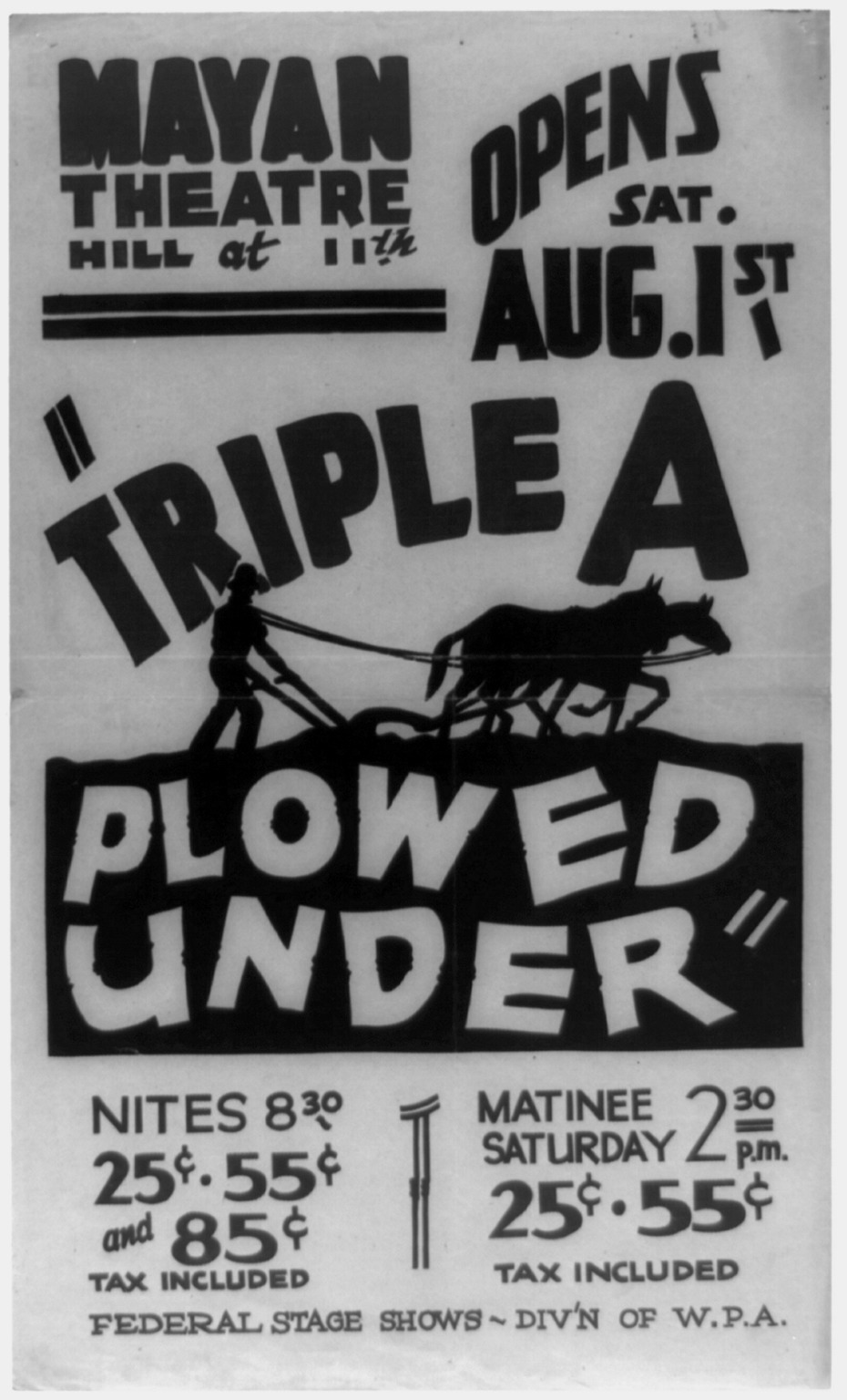 Title: "Triple a plowed under" Abstract: Poster for Federal Theatre Project presentation of "Triple A Plowed Under" at the Mayan Theatre, Hill at 11th St., Los Angeles, Calif., showing a man with horse-drawn plow. Physical description: 1 print (poster) : silkscreen, color. Notes: Work Projects Administration Poster Collection (Library of Congress).